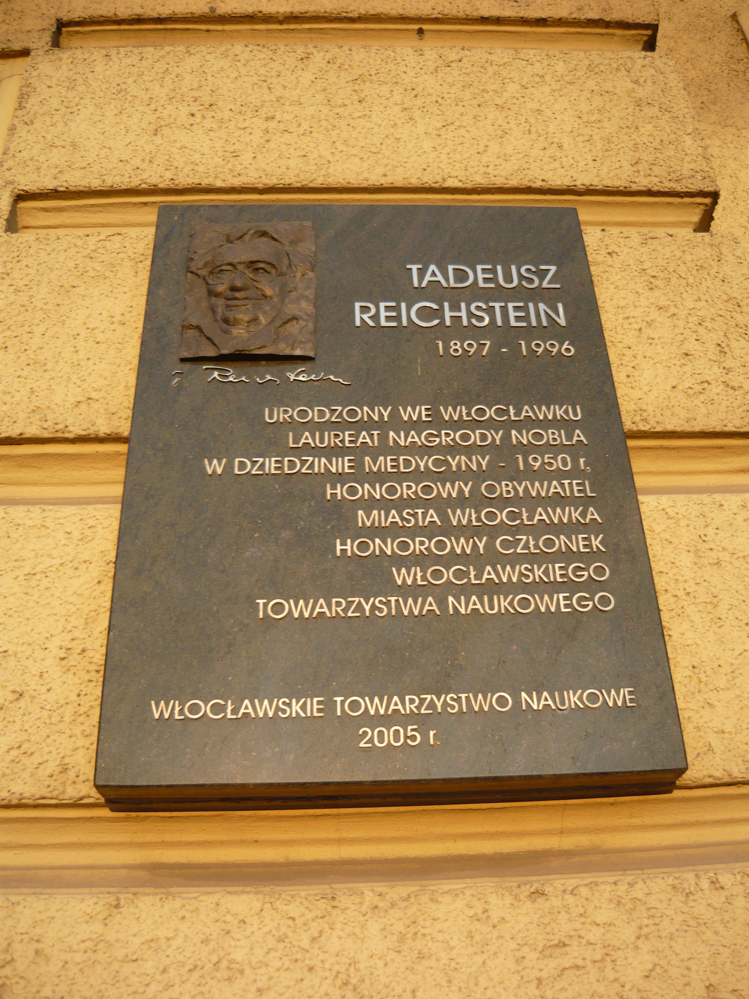 The plaque on the house, where has been born Tadeusz Reichstein, laureate of Noble Prize. Liberty Sqaure, Włocławek.